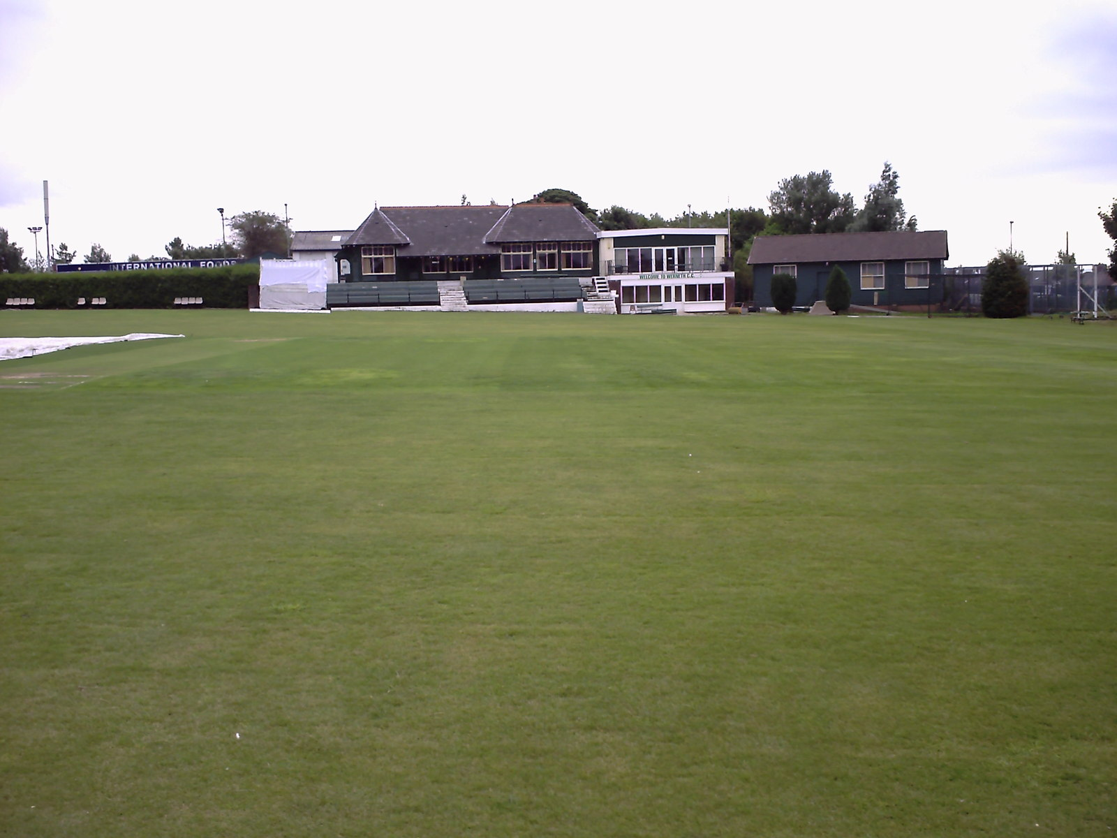 Werneth Cricket Club - Pavilion